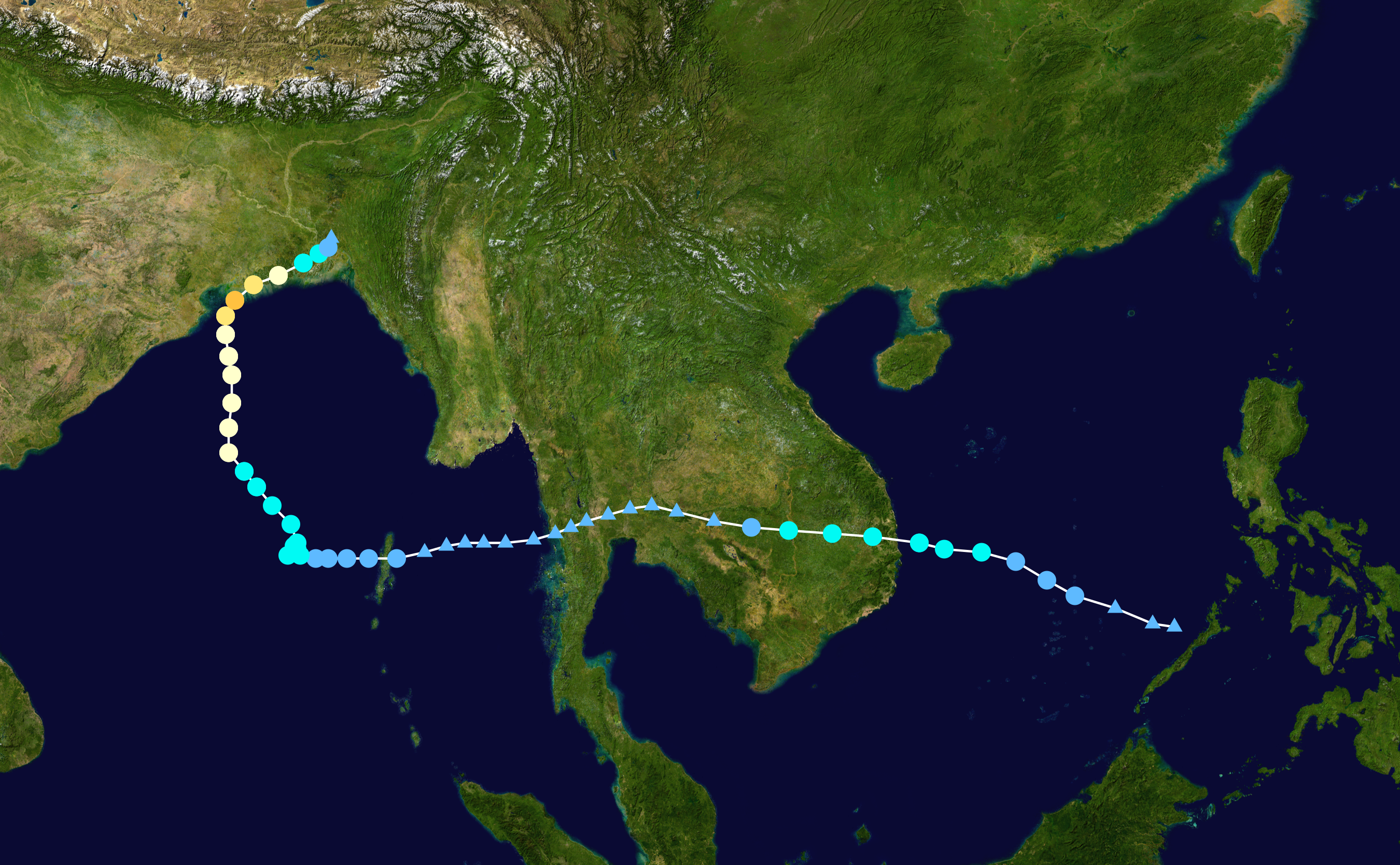 Track map of Severe Tropical Storm Matmo / Very Severe Cyclonic Storm Bulbul of the 2019 Pacific typhoon season and the 2019 North Indian Ocean cyclone season. The points show the location of the storm at 6-hour intervals. The colour represents the storm's maximum sustained wind speeds as classified in the Saffir–Simpson scale (see below), and the shape of the data points represent the nature of the storm, according to the legend below. Saffir–Simpson scale Tropical depression≤38 mph≤62 km/h Category 3111–129 mph178–208 km/h Tropical storm39–73 mph63–118 km/h Category 4130–156 mph209–251 km/h Category 174–95 mph119–153 km/h Category 5≥157 mph≥252 km/h Category 296–110 mph154–177 km/h Unknown Storm type Tropical cyclone Subtropical cyclone Extratropical cyclone / Remnant low / Tropical disturbance / Monsoon depression